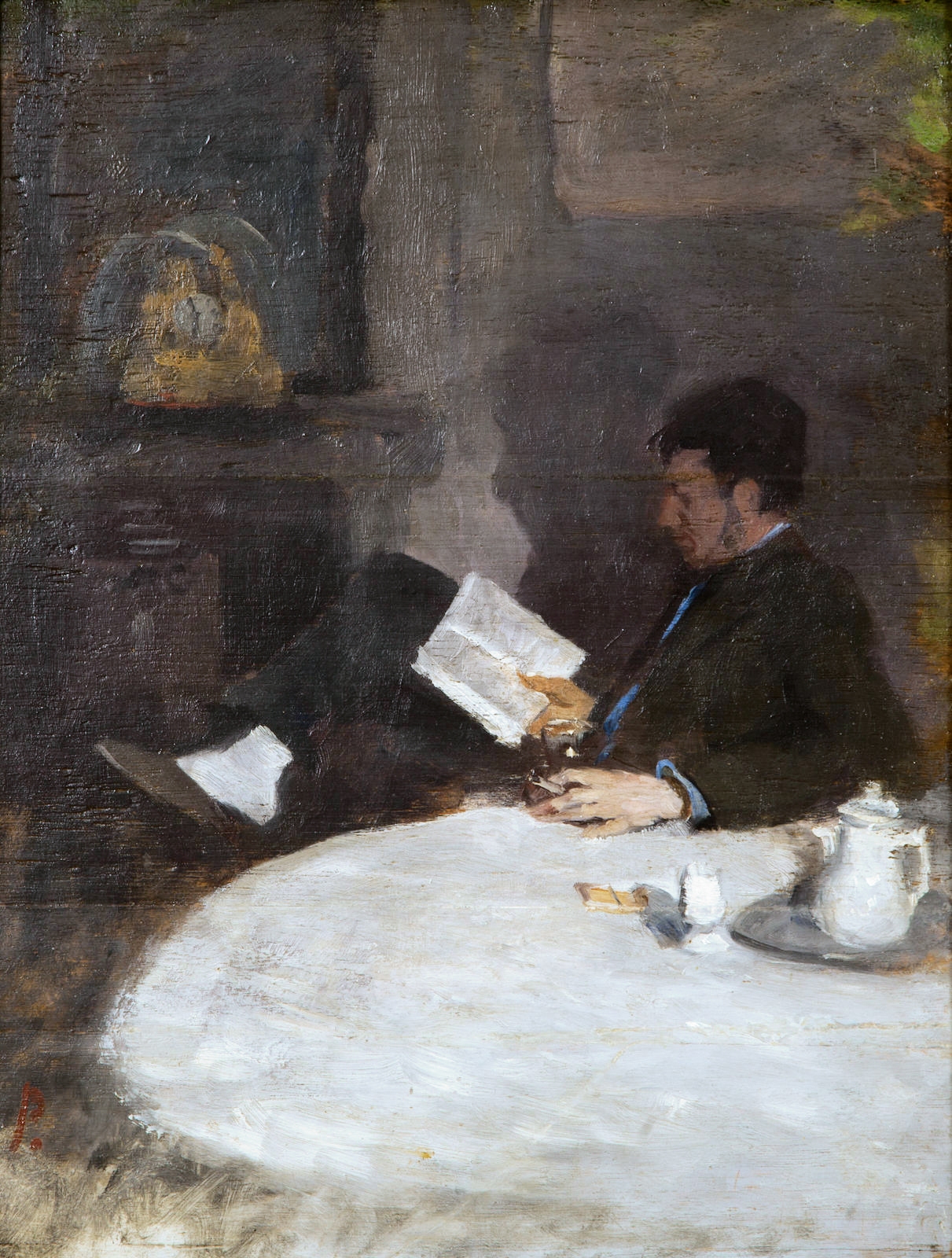 The painter Maurice Hagemans oil on panel 42 x 33 cm signed b.l.: P.